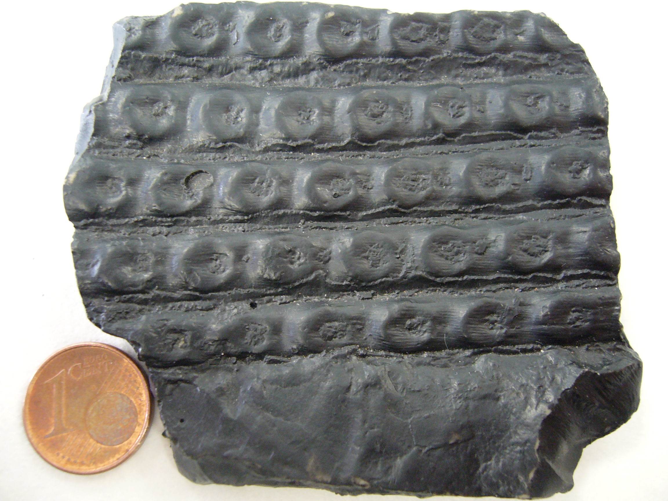 Replica of Sigillaria sp. in a laboratory of practices of the Faculty of Sciences of the University of Corunna.